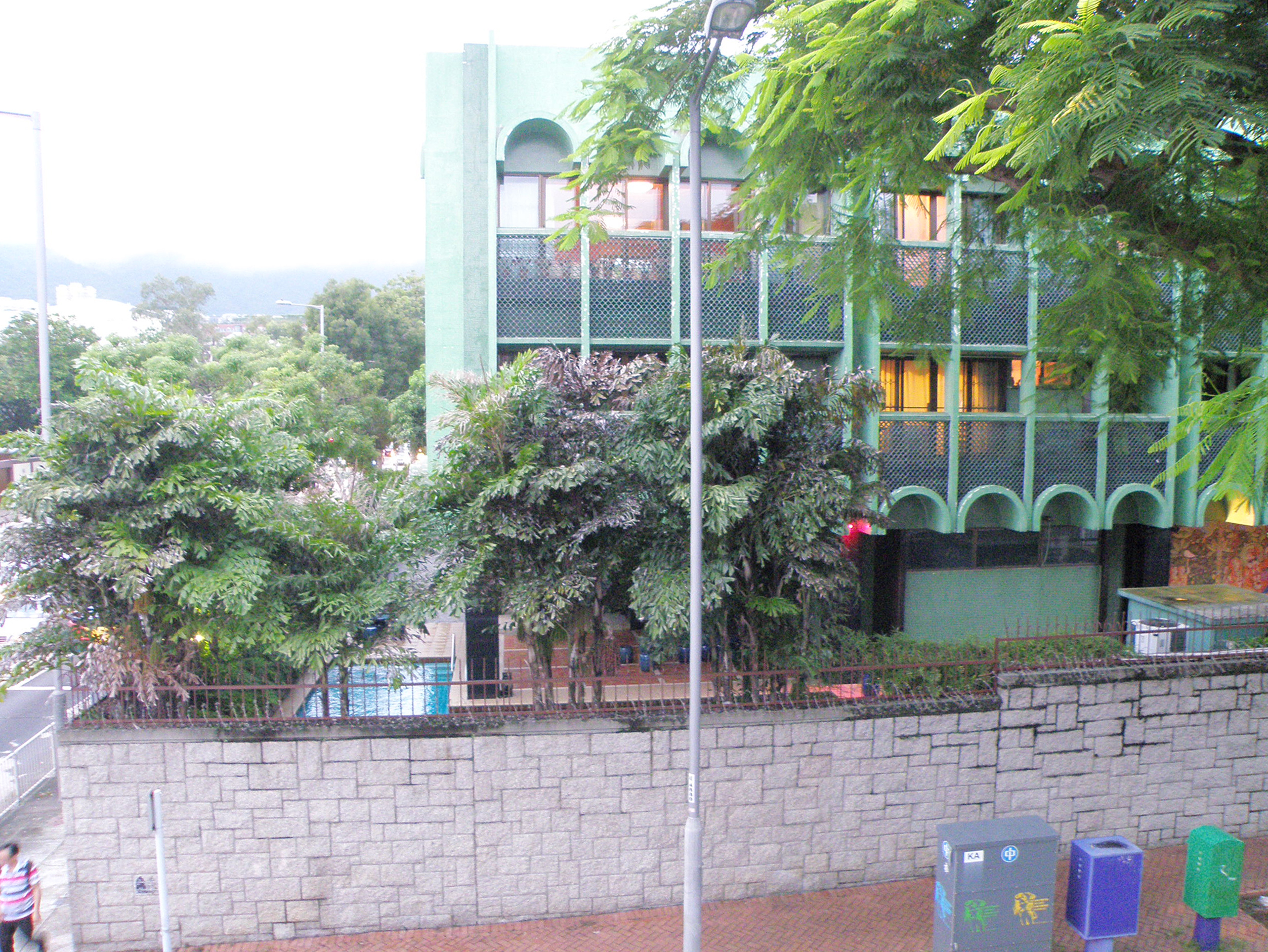 Harilela Mansion in Kowloon Tong, Hong Kong.